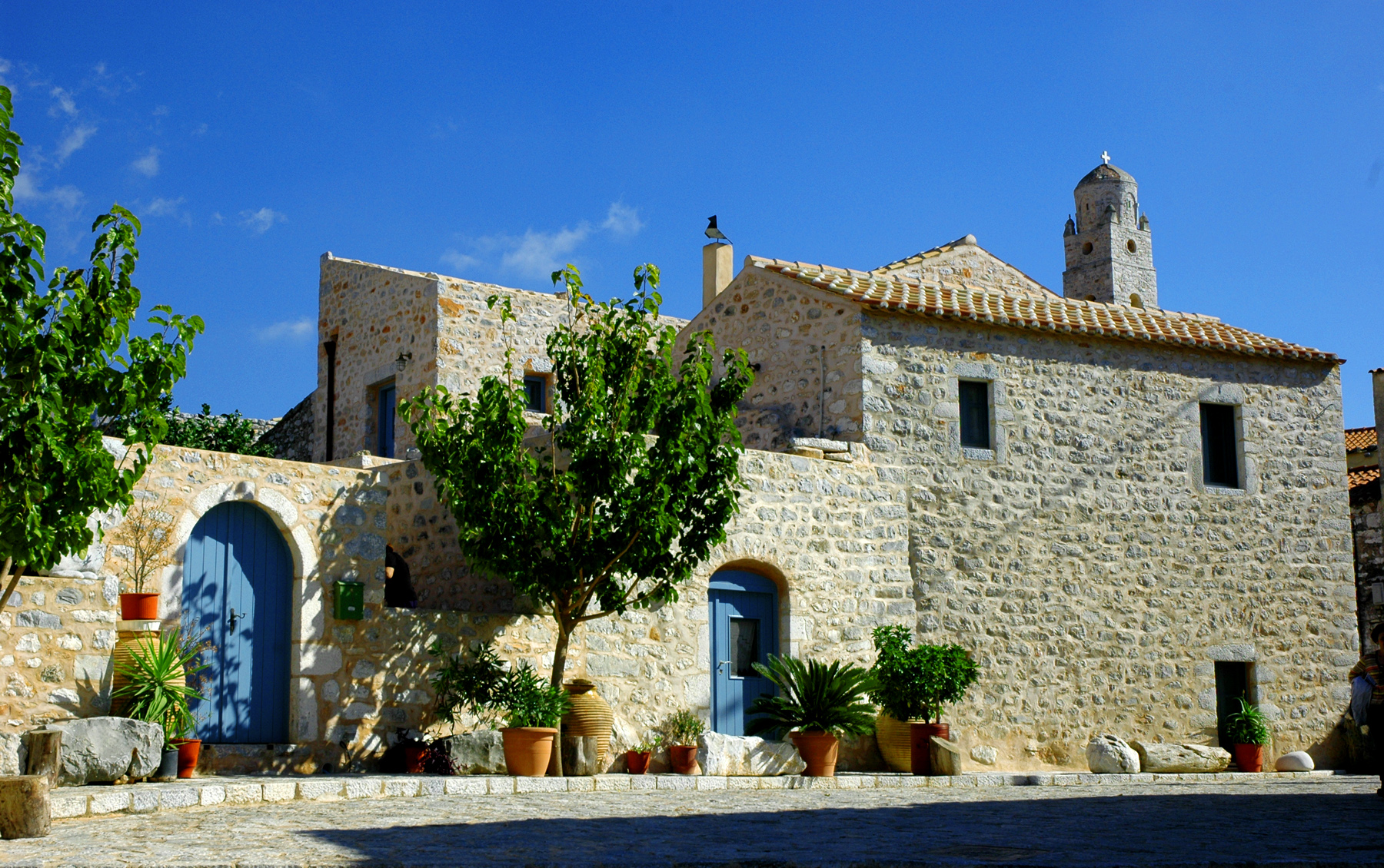 Stone houses of Areopolis, Greece